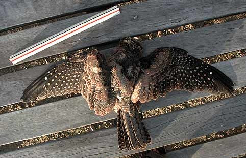 White-throated Nightjar (Eurostopodus mystacalis) Roadkill Kobble Creek, SE Queensland, Australia